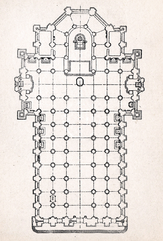 Plan of the Milan Cathedral